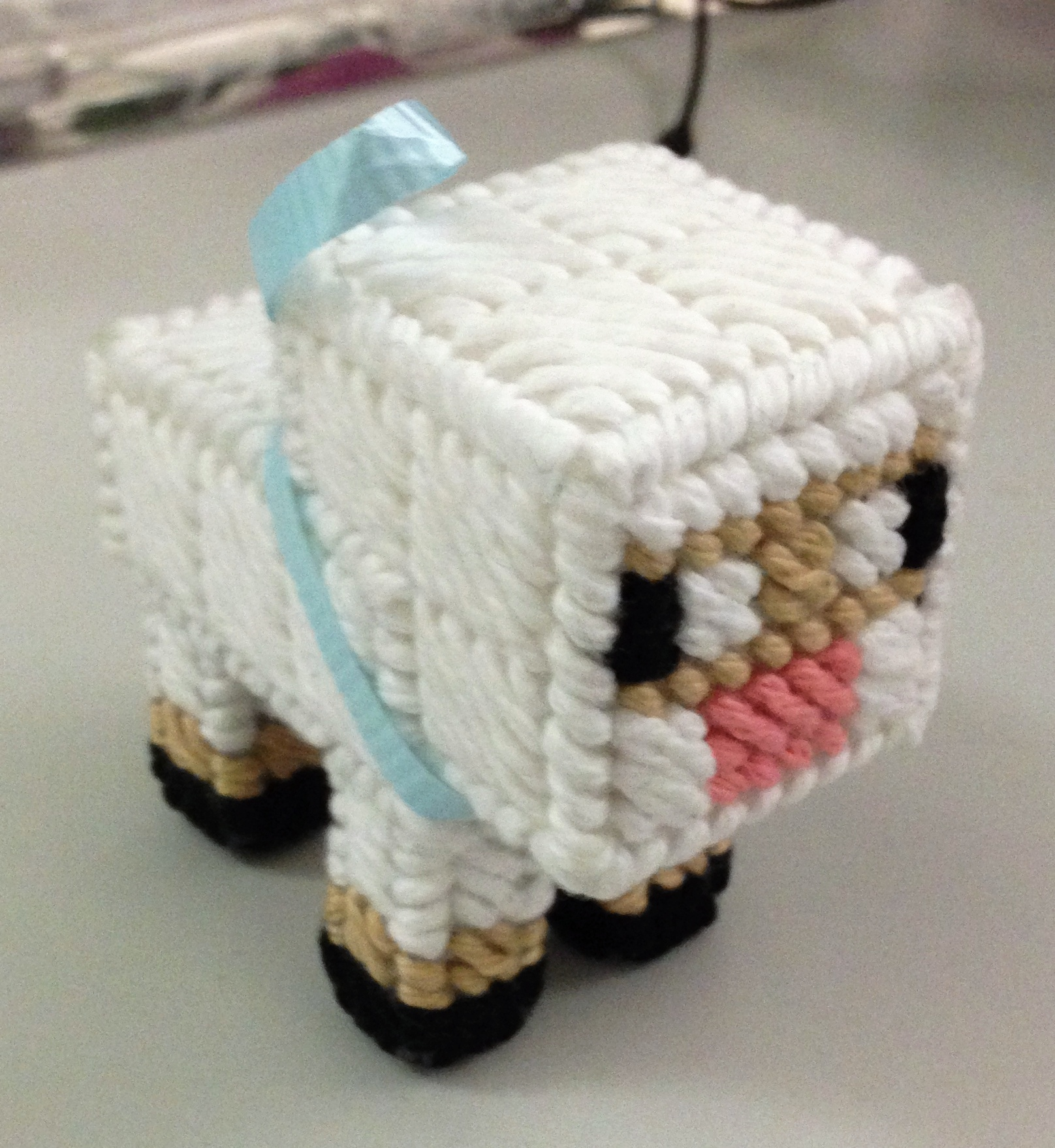 Christmas present for Charles